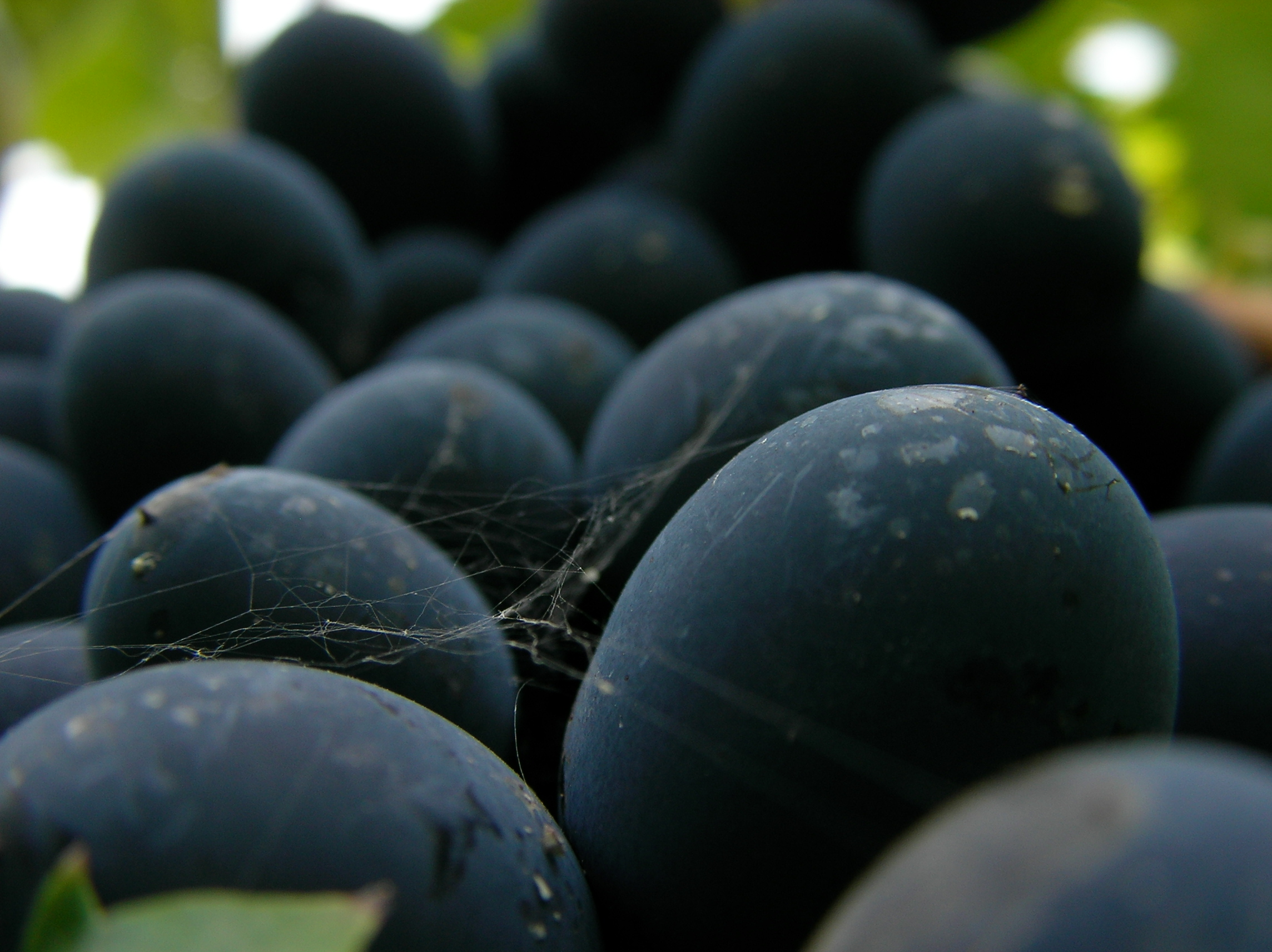 Grapes in Georgia.